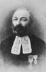 Isaac Levy (1835-1912) Chief Rabbi of the Haut-Rhin (Elsass)